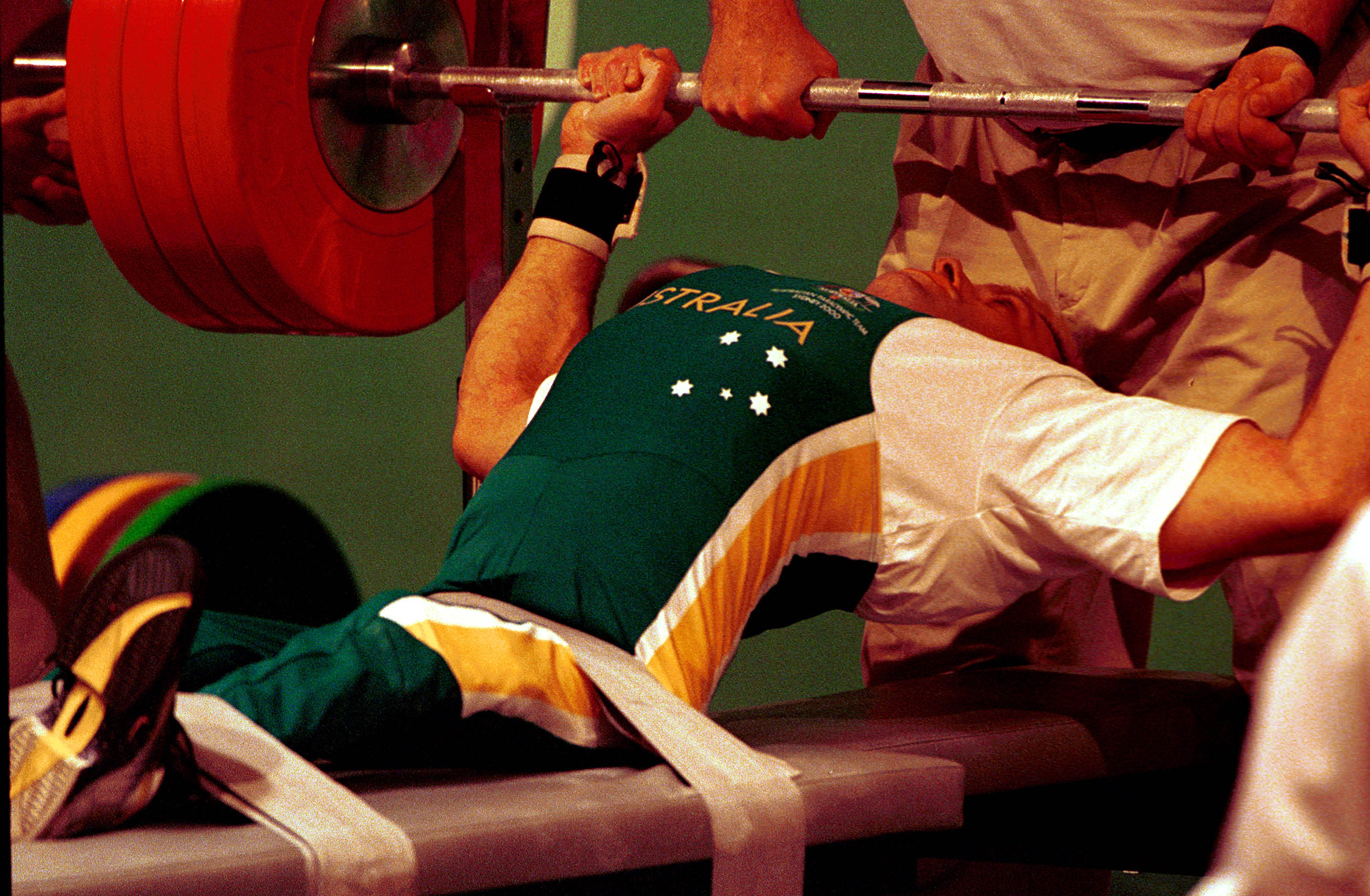 Australian powerlifter Richard Nicholson during 2000 Sydney Paralympic Games competition